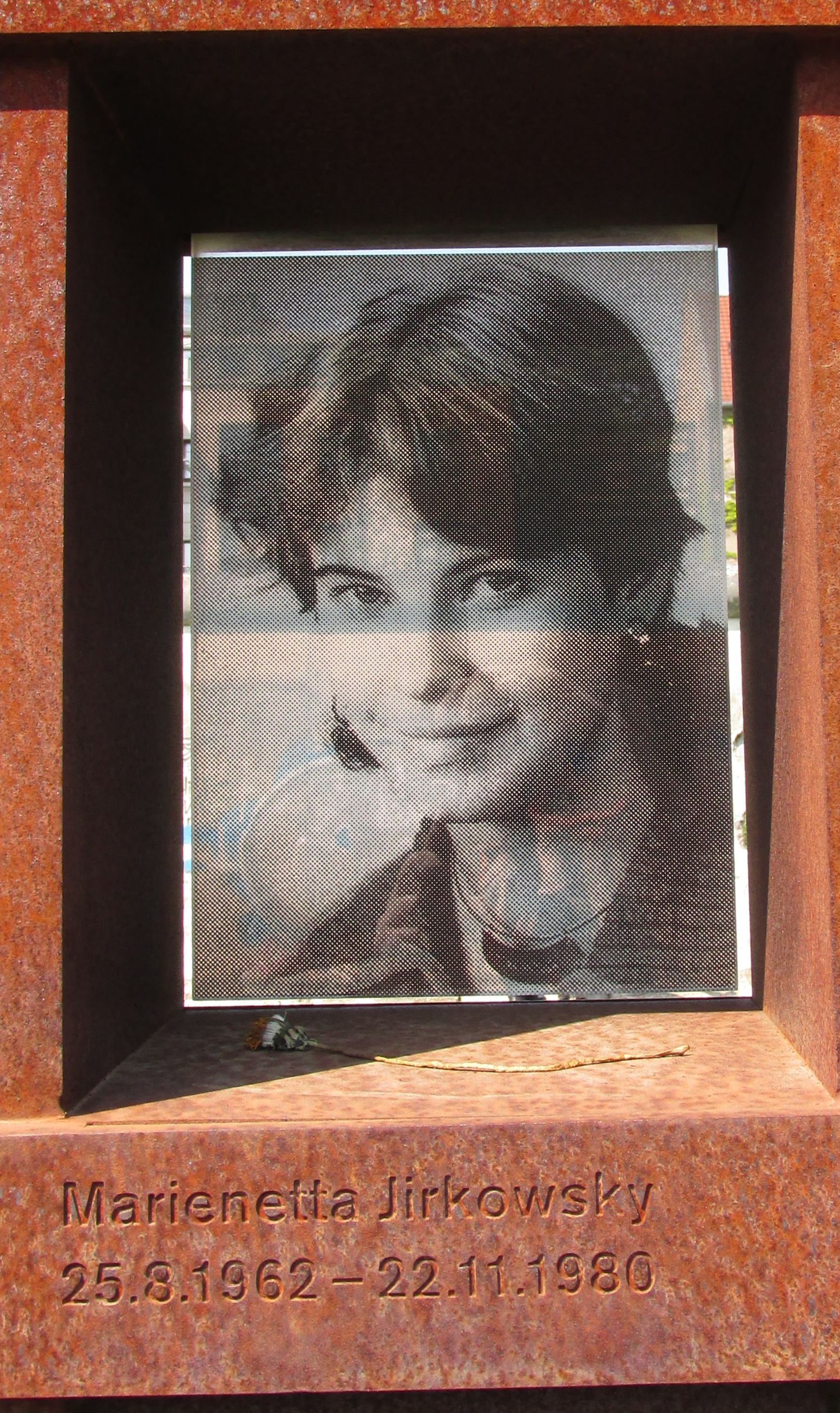 I took the picture myself at the Berlin Wall Memorial on Bernauer Strasse, in Berlin